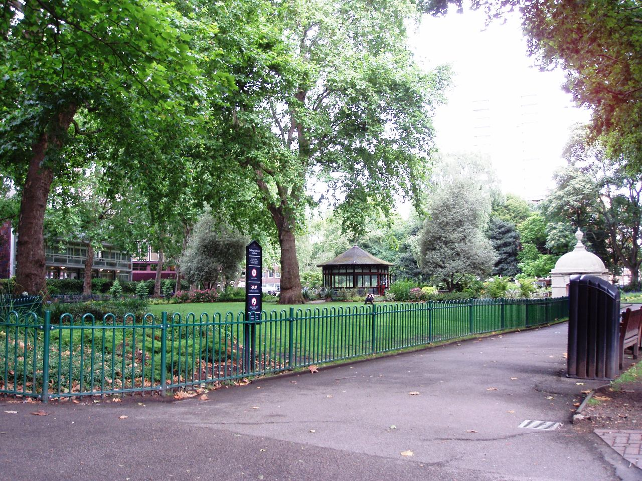 Attractive gardens just behind Marylebone High St. Photo taken August 2008. Owner: City of Westminster.